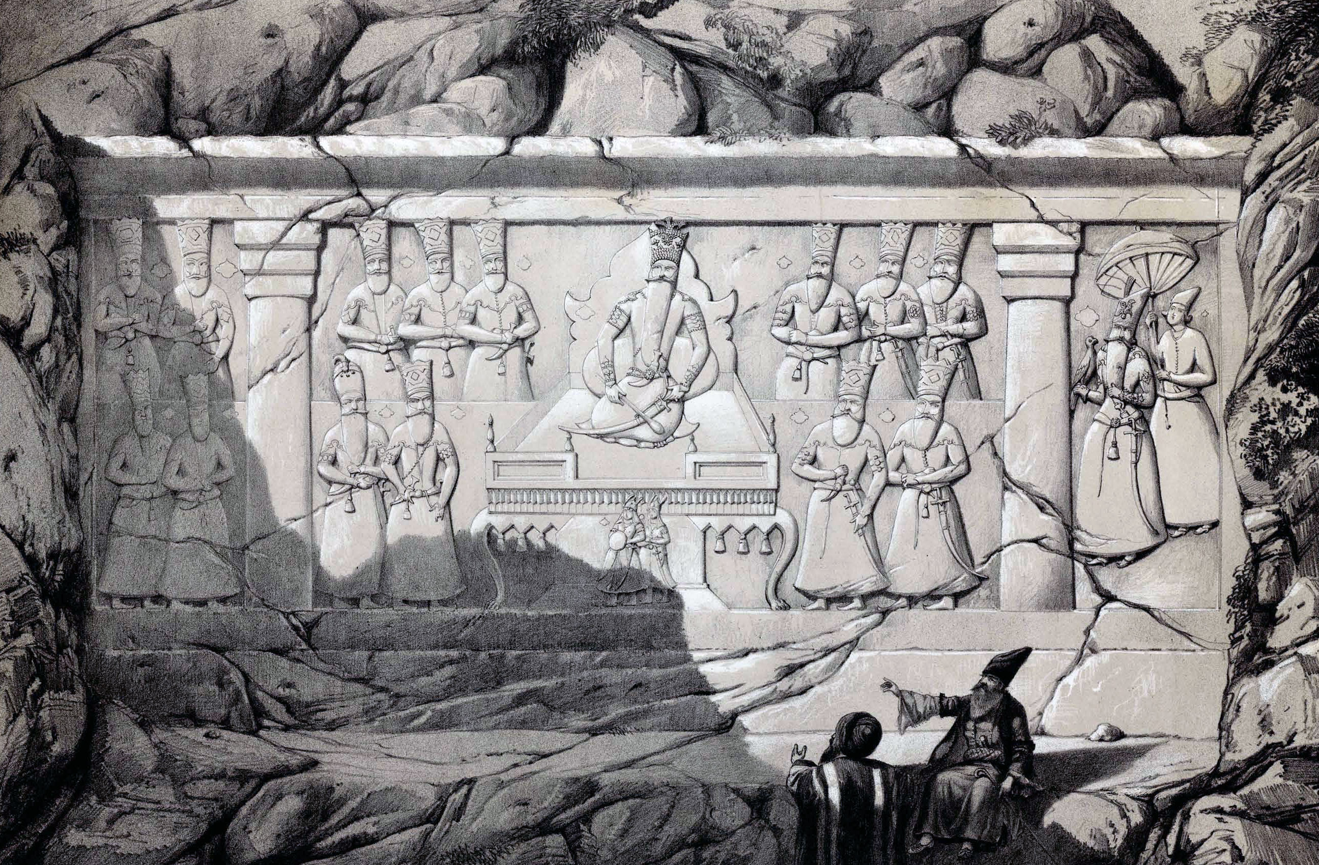 Relief - Feth Ali Shah and his son Shah Zade to Cheshme Ali , near Tehran